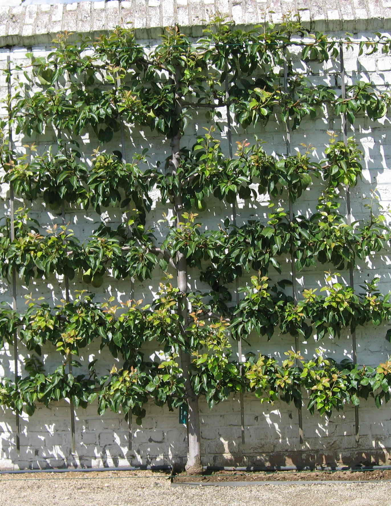 A picture of the espaliered horizontal espalier fruit tree form. The picture was taken at a fruittreeform-test site near the castle of Gaasbeek.